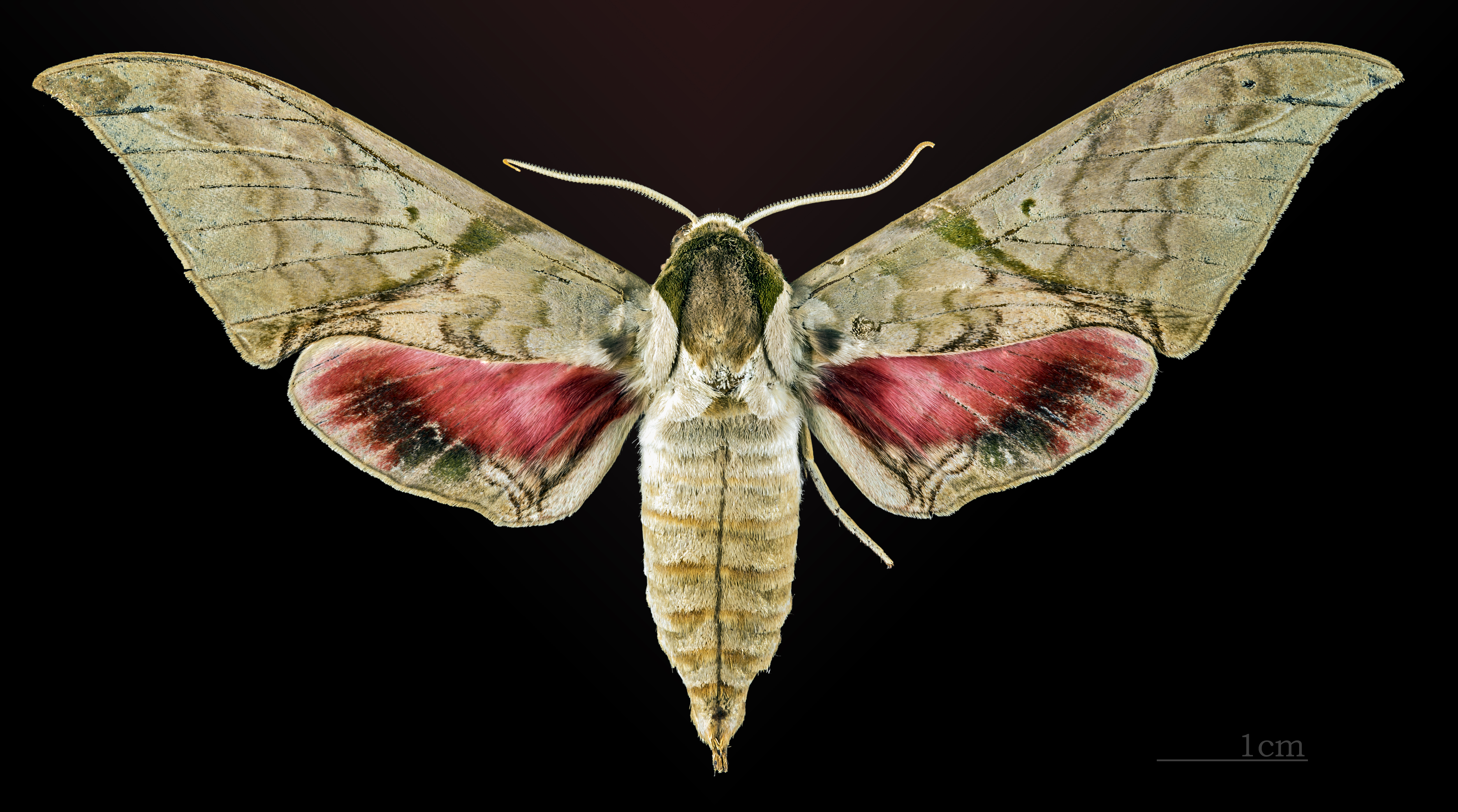 Callambulyx rubricosa piepersi - Dorsal side Collection of the Mathematician Laurent Schwartz